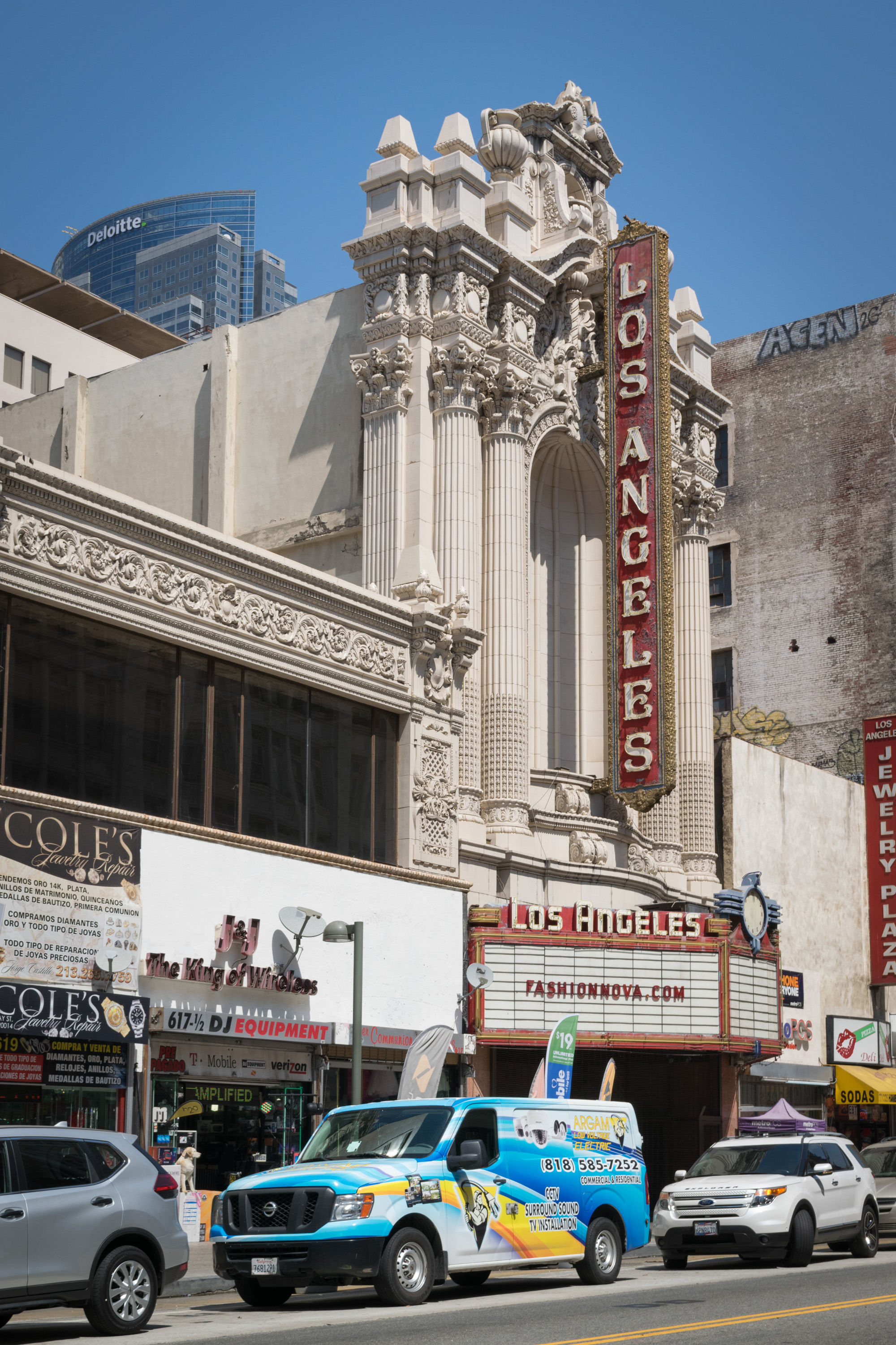 Los Angeles Theatre in 2017.